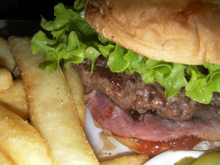 Hamburger from a fastfood chain restaurant near Botany, in Auckland, New Zealand. There are slices of canned beetroot inside. Delicious. This picture is public domain from An American's perspective on New Zealand (see notice at top of article). Questions? Ask here.